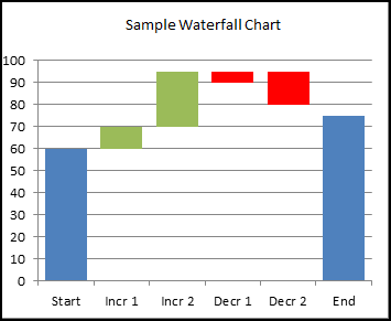 Sample waterfall chart from sample data